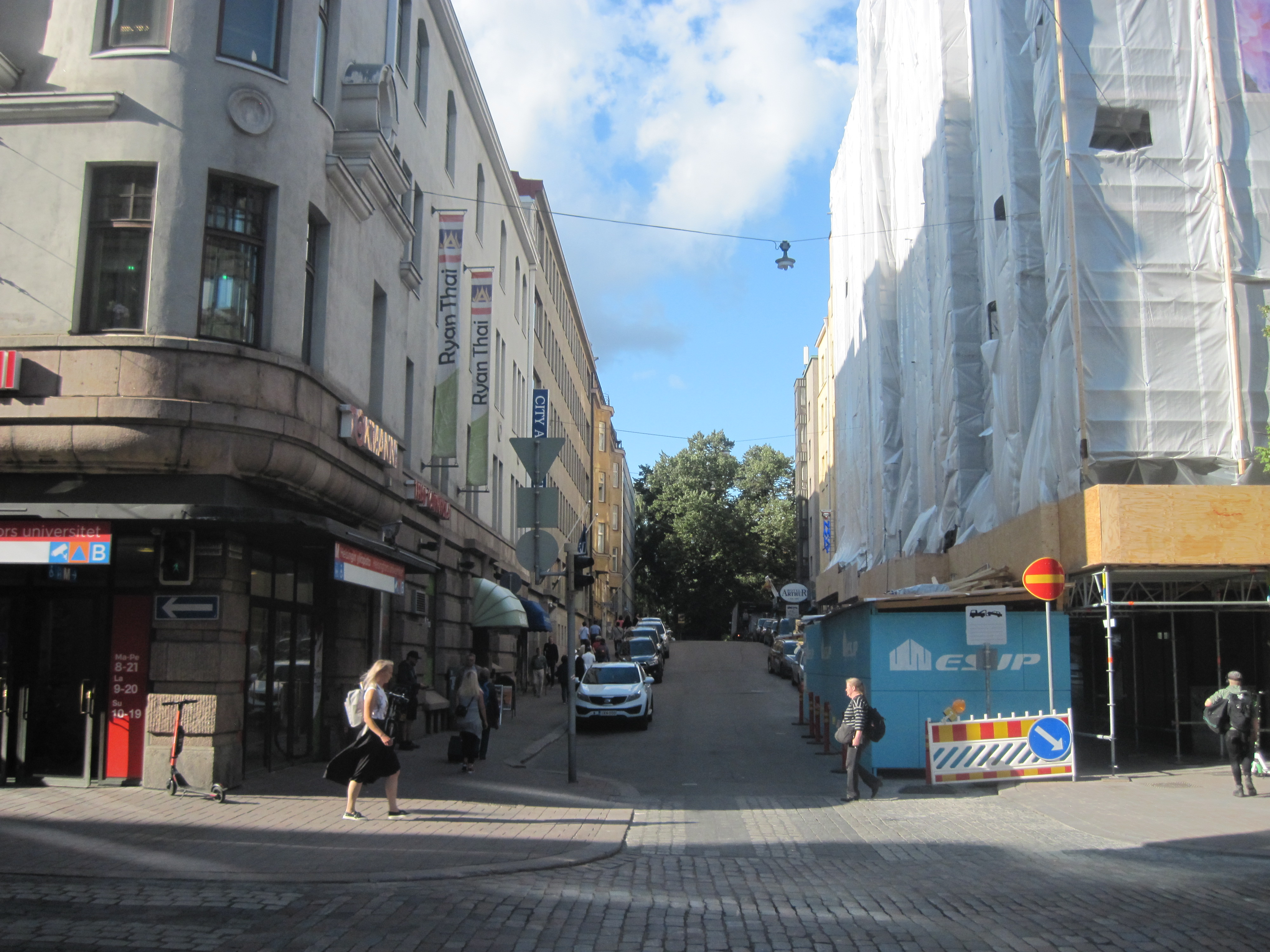 Vuorikatu in Helsinki as seen Northwards from the corner of Kaisaniemenkatu